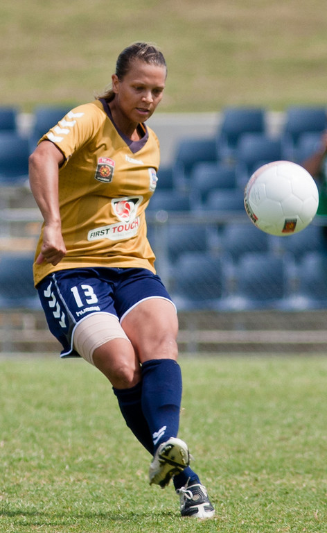 Thea Slatyer playing for the Newcastle Jets W-League team in 2010.